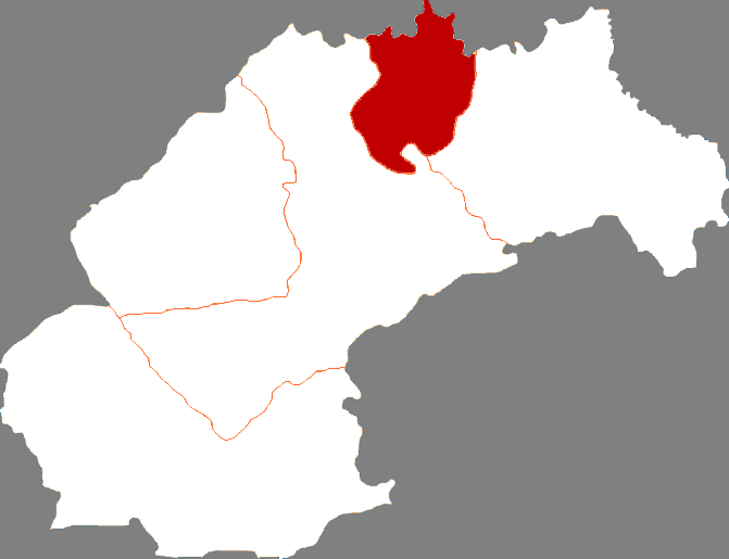 Location of Ninjiang district in Songyuan City, China